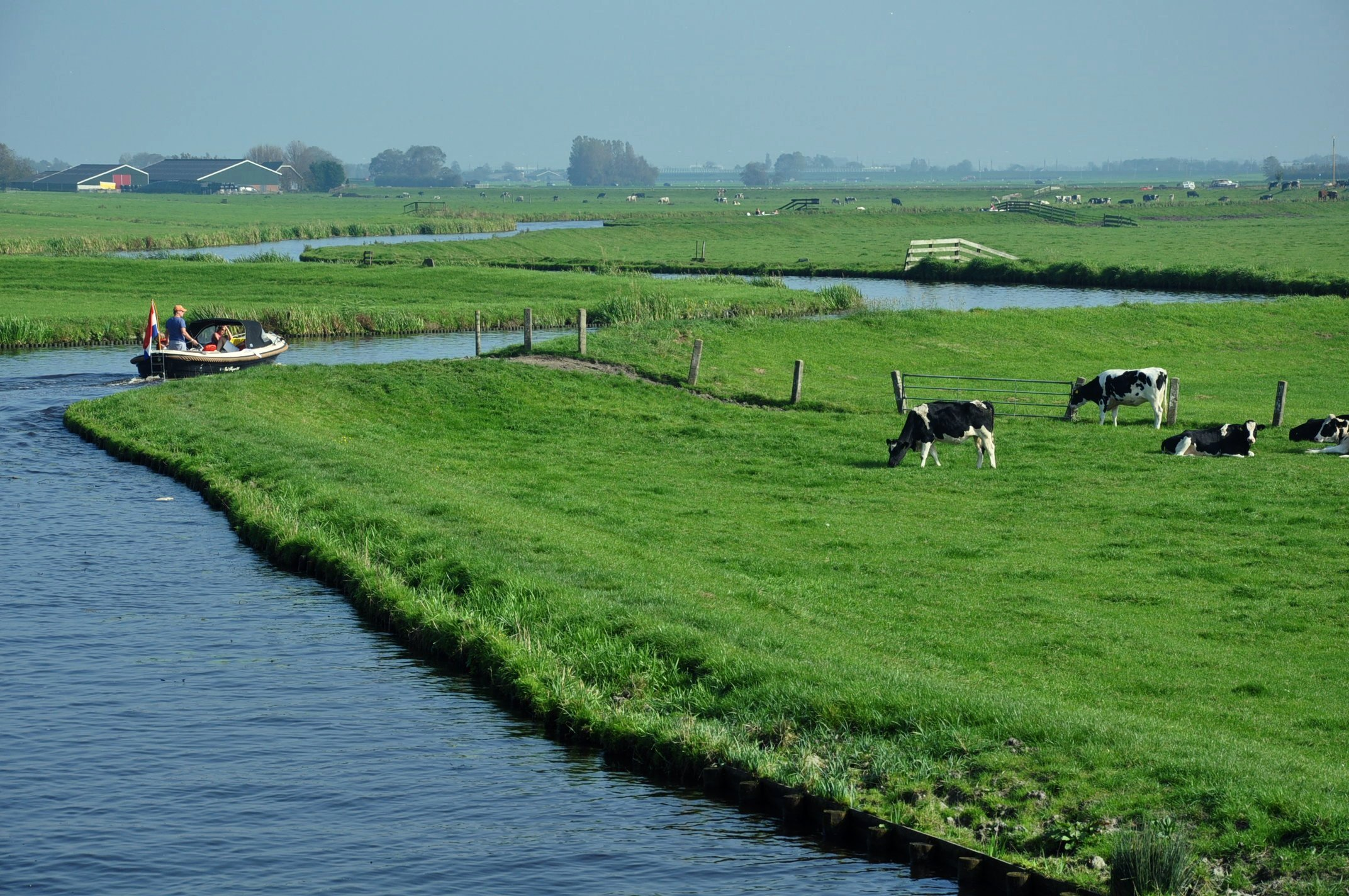 The meandering Stingsloot in the municipality Kaag en Braassem (Province South Holland, Netherlands) separates the Vrouw-Venne Polder (at left) and the Rode polder (Red Polder, on the right).